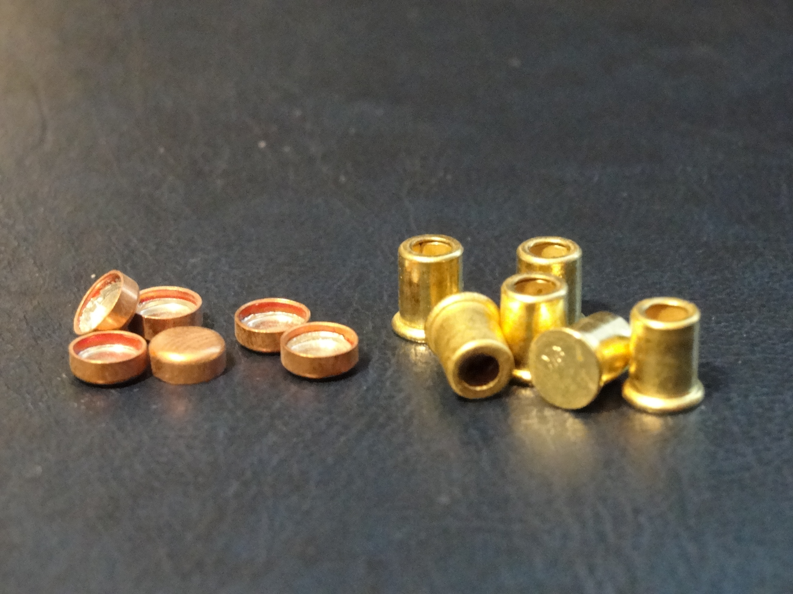 Percussion Caps for Shotgun Catridges